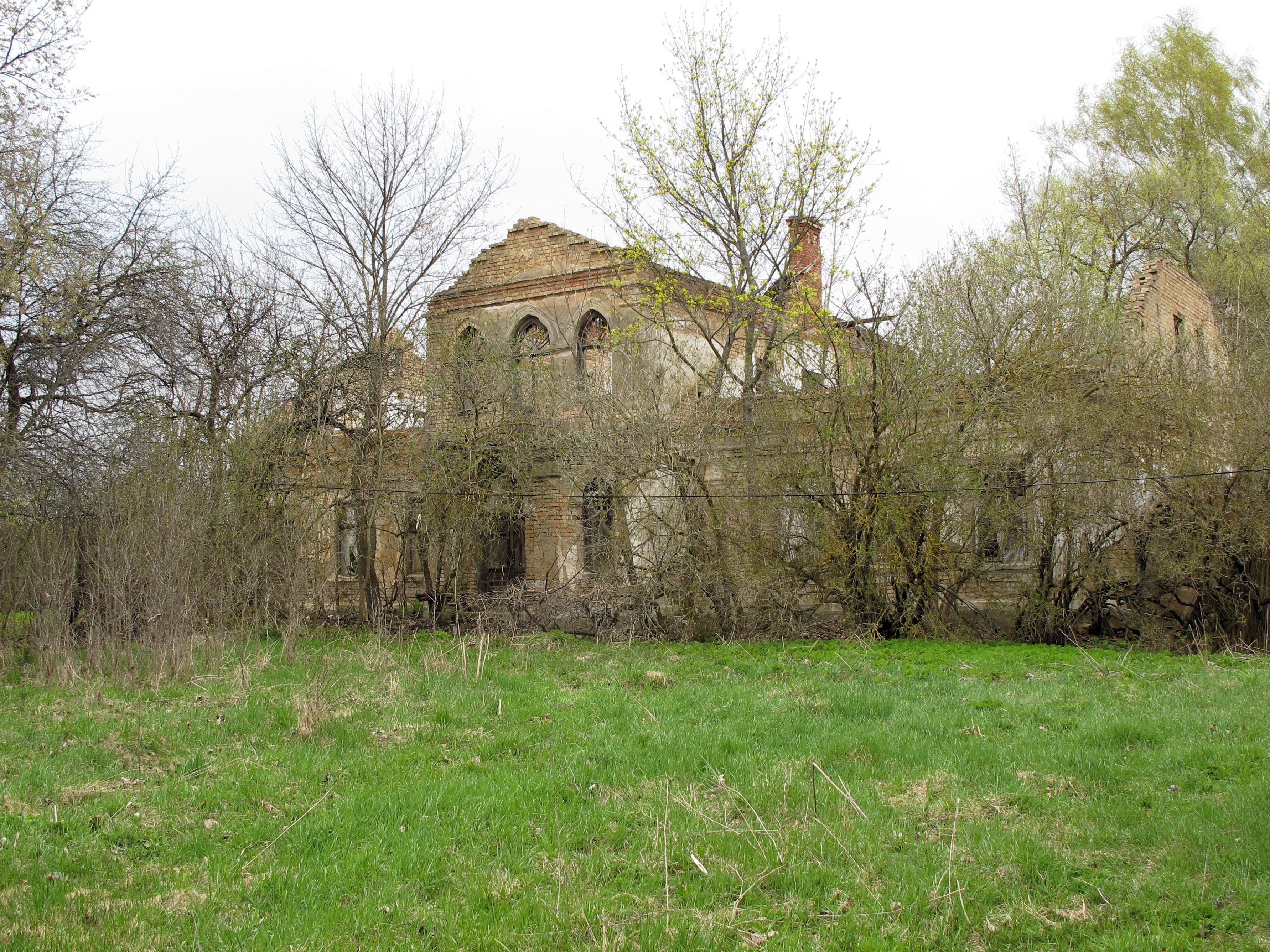 Ruins of Lewiccy's Palace from 2nd half of the XIX century near Niewodnica Nargilewska village, gmina Juchnowiec Kościelny, podlaskie, Poland